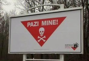 minefield sign photographed in Croatia